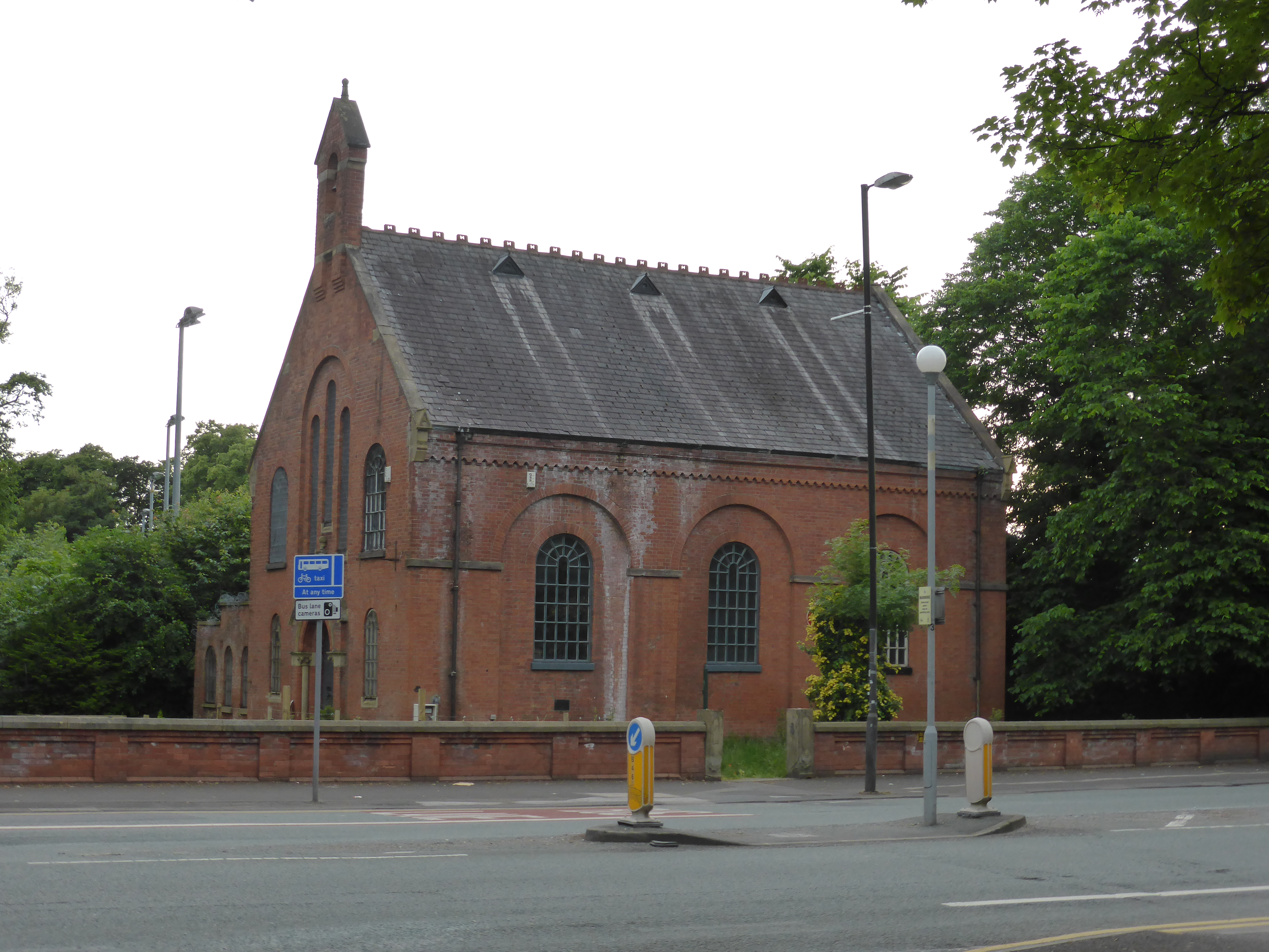 Photograph of the former Platt Chapel, Fallowfield, Manchester, England